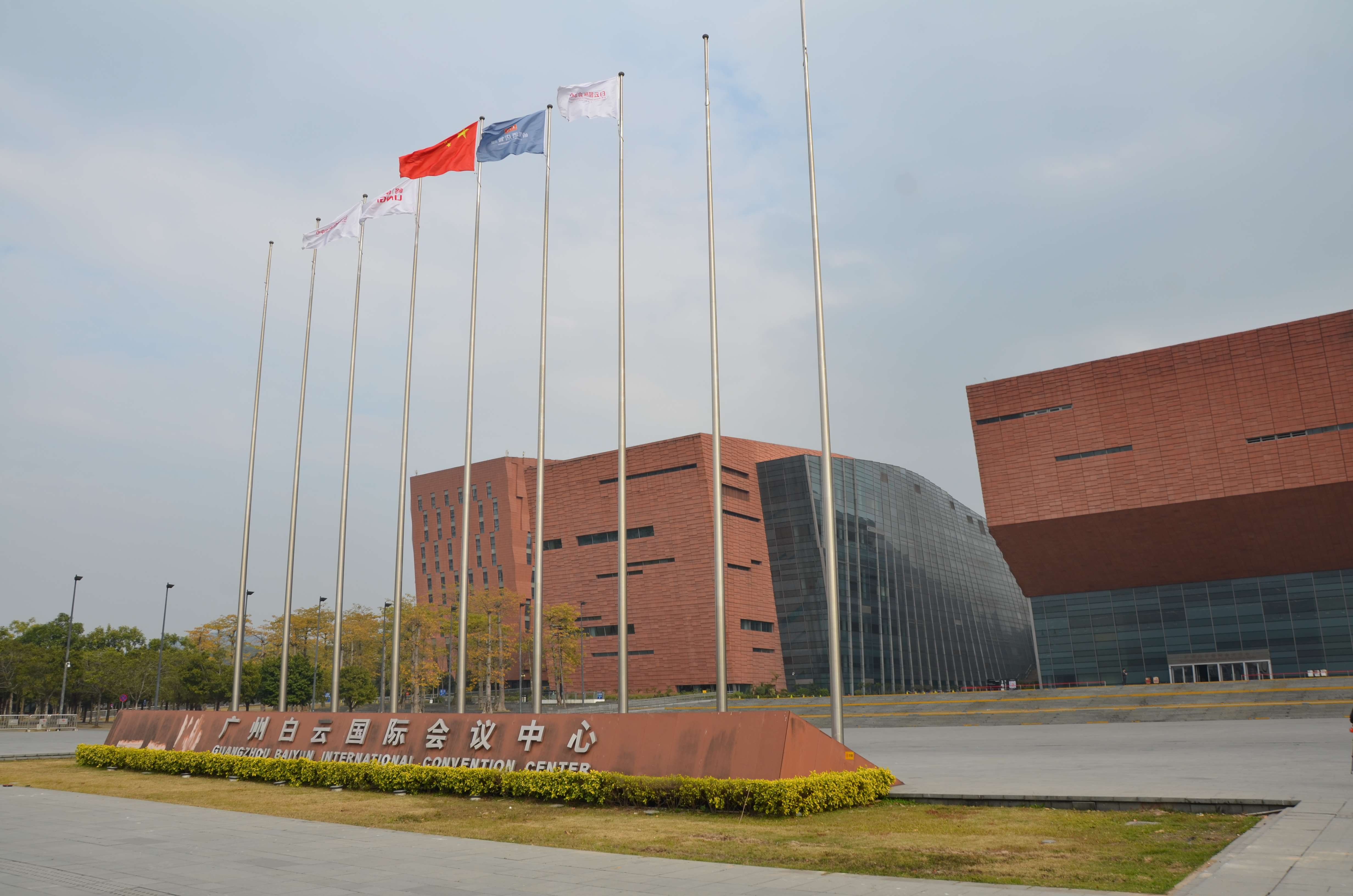 Guangzhou Baiyun International Convention Center